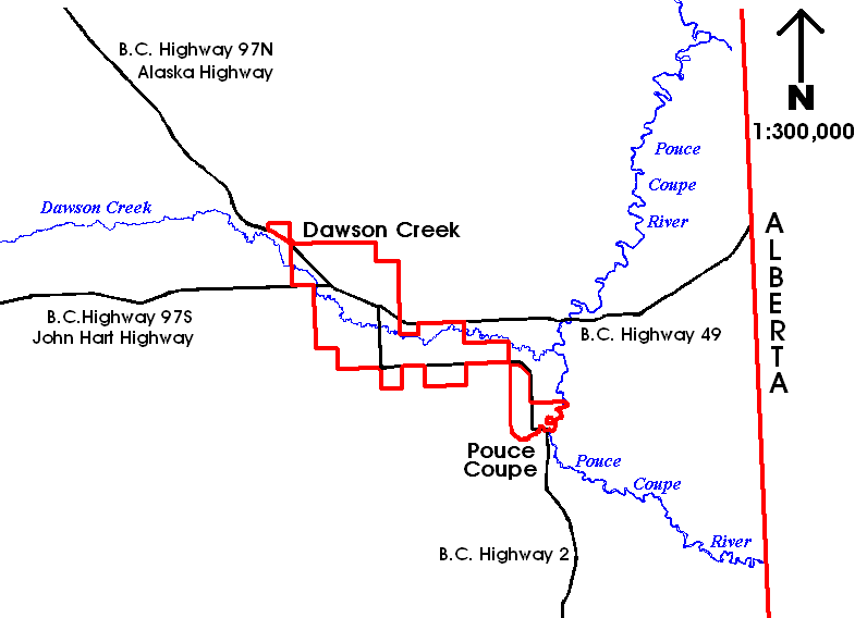 Borders, highways and waterways